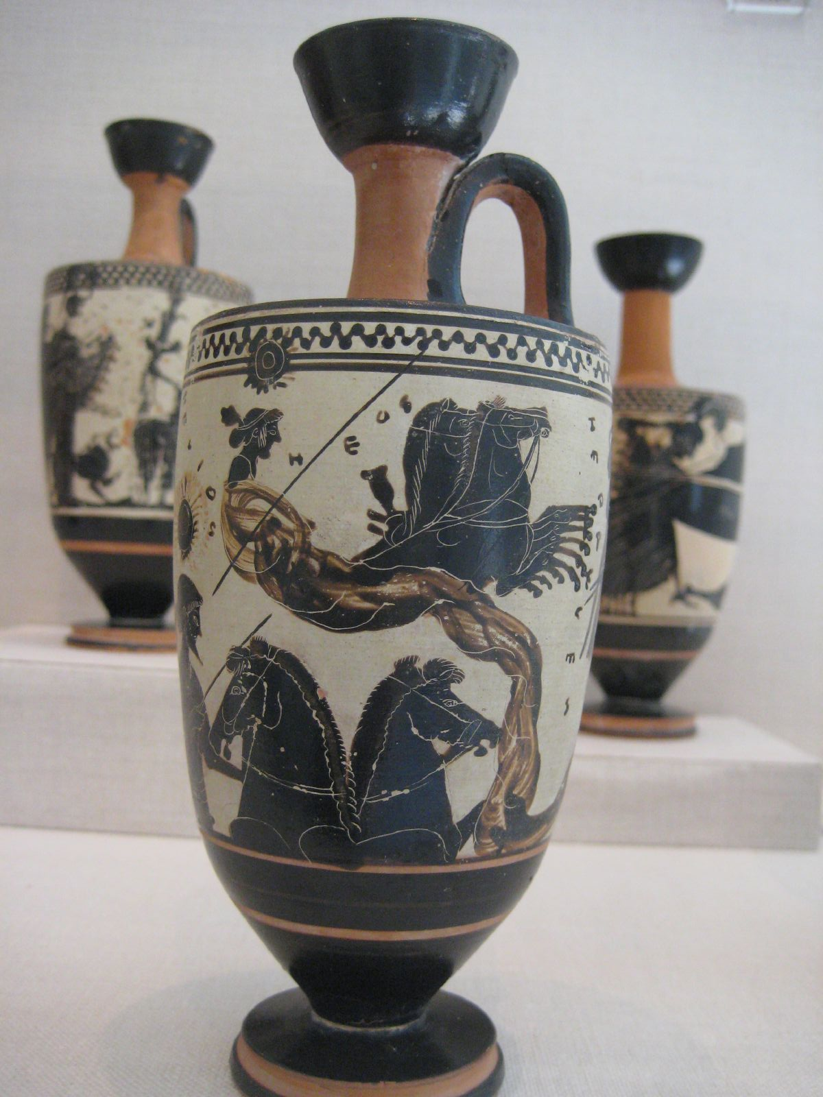 Greek, Attic, black-figure, ca. 500 BC. Said to be from Attica. Attributed to the Sappho Painter. Shows Helios (the sun) rising in his quadriga (4-horse chariot); above, Nyx (Night) driving away to the left and Eos (the goddess of dawn) to the right; Herakles offering sacrifice at altar.